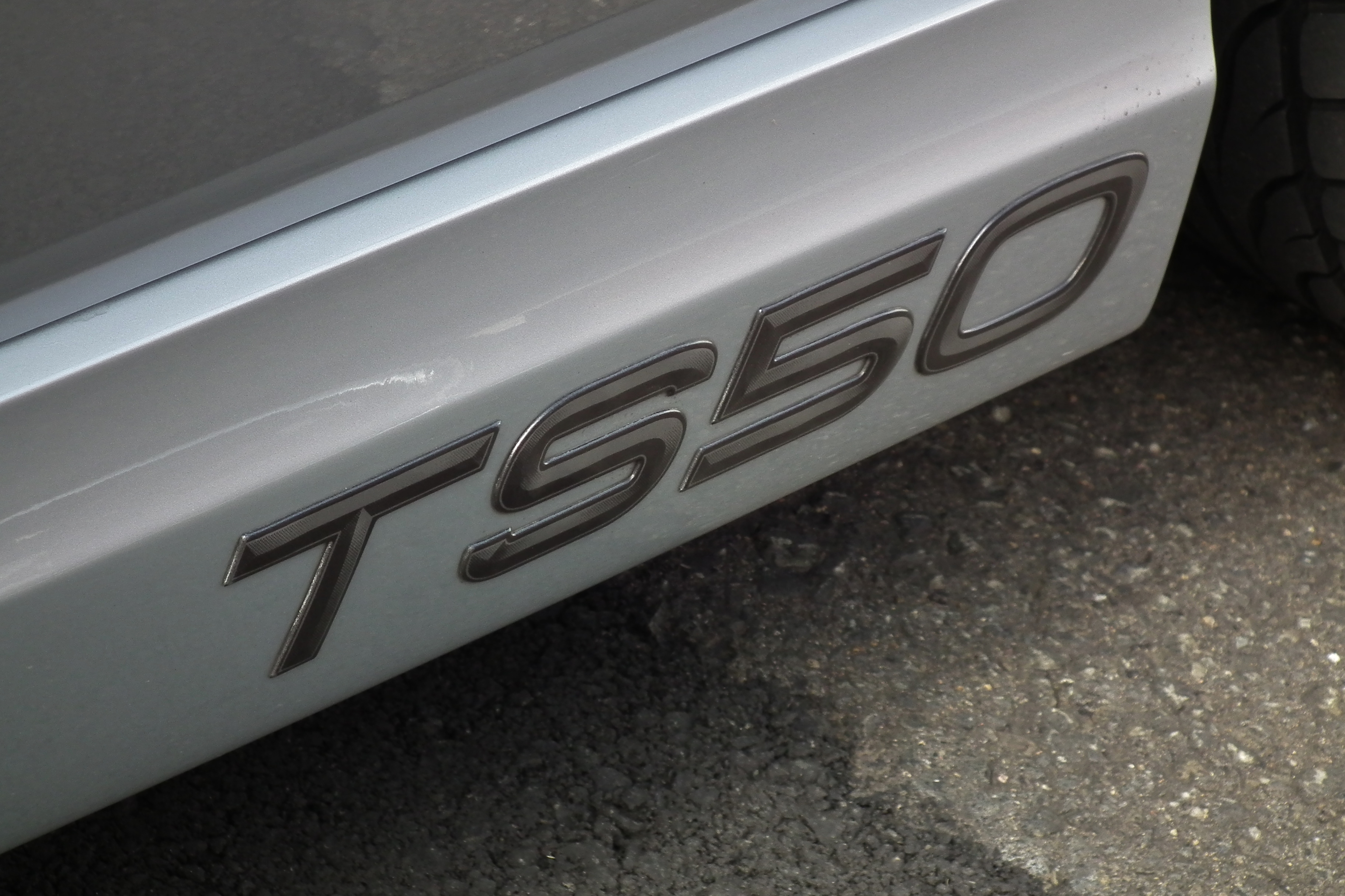 2002 Ford Tickford AU Falcon TS50 sedan decal. Taken at the 2011 New South Wales All Ford Day, held at Eastern Creek Raceway.